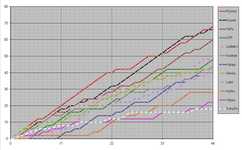 Korisliiga 09/10 regular season standings